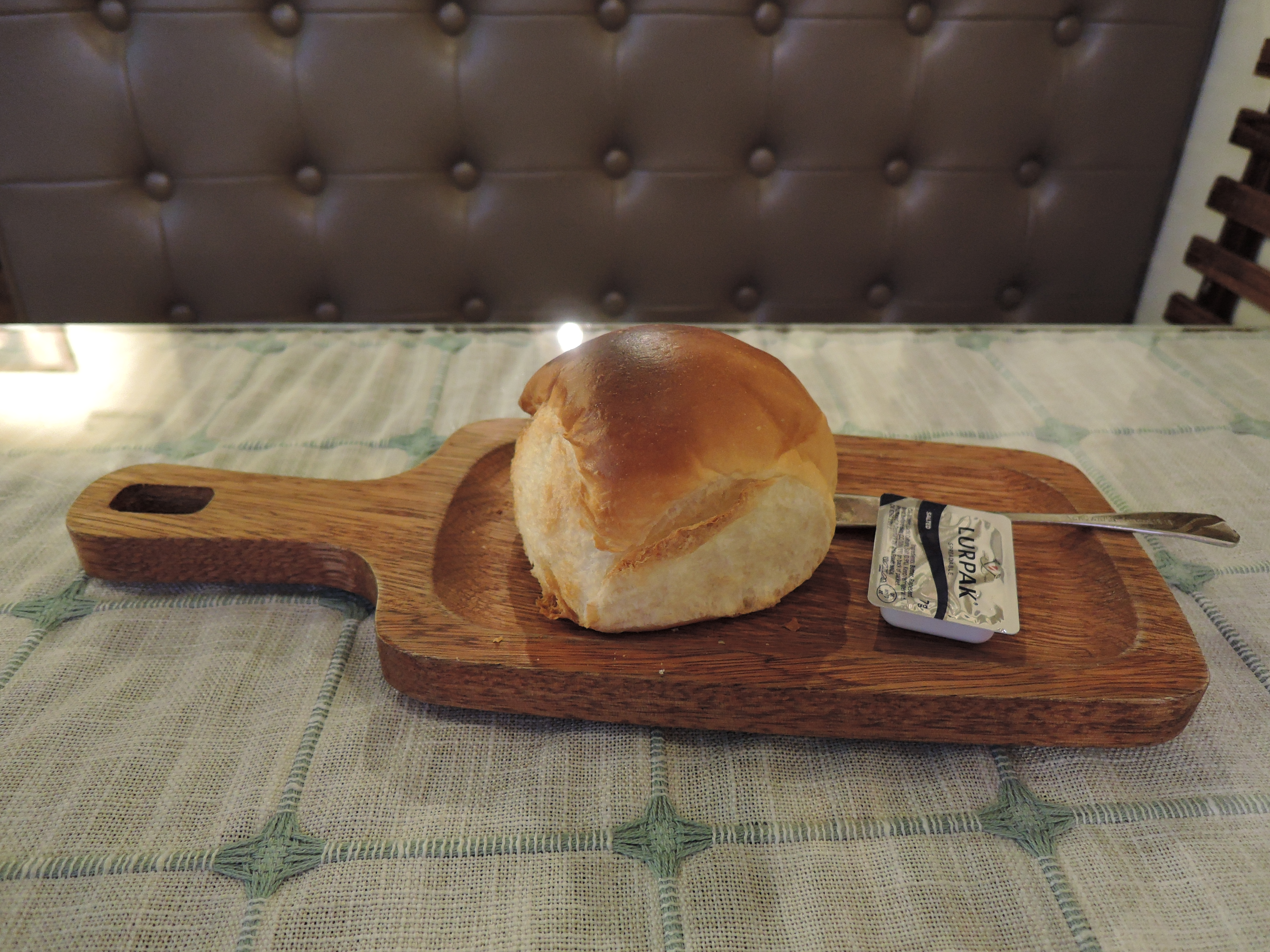 A baked of bun in trustfully homemade restaurant at building in yuen long